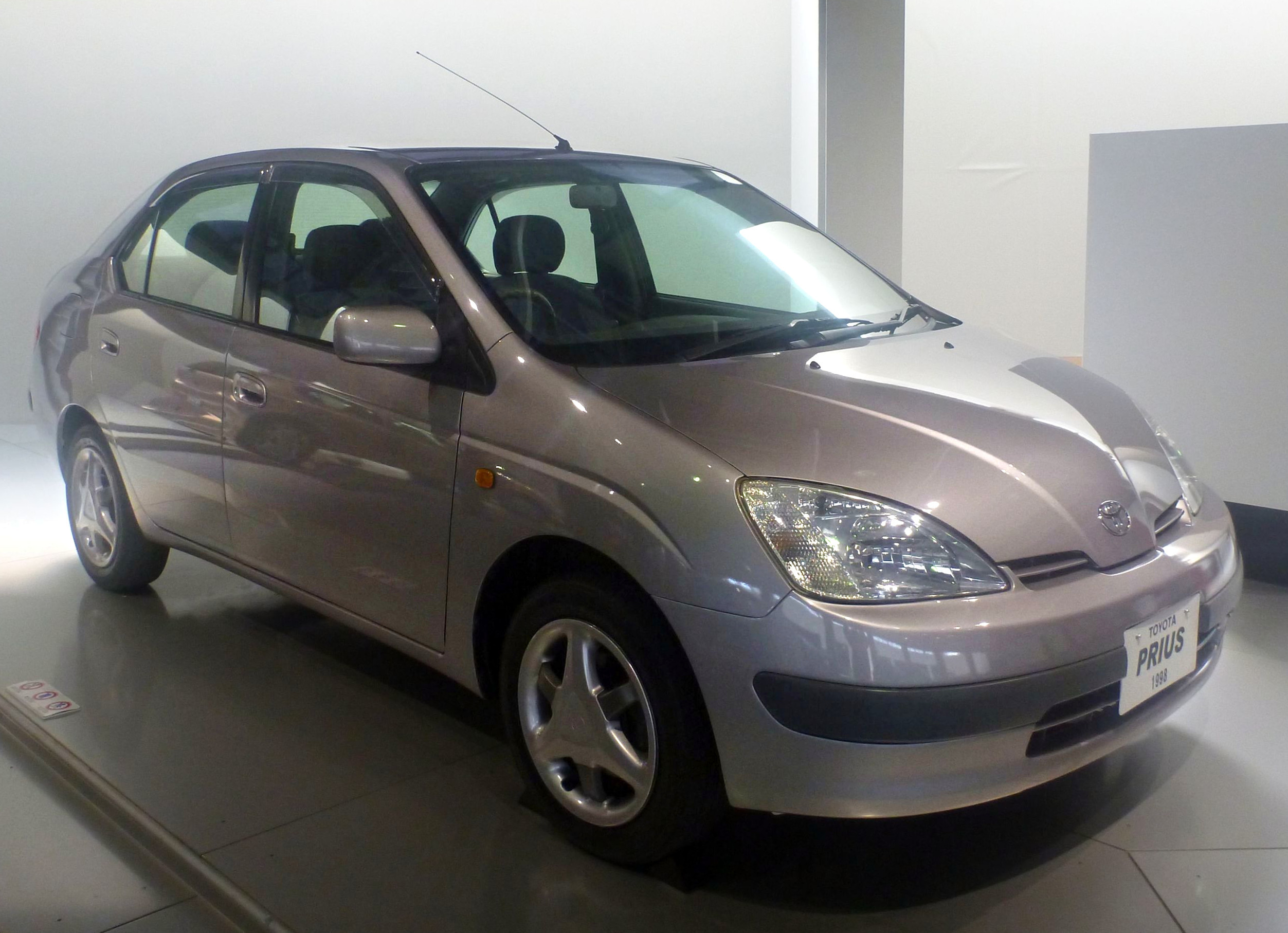 Toyota Prius in Toyota Automobile Museum.